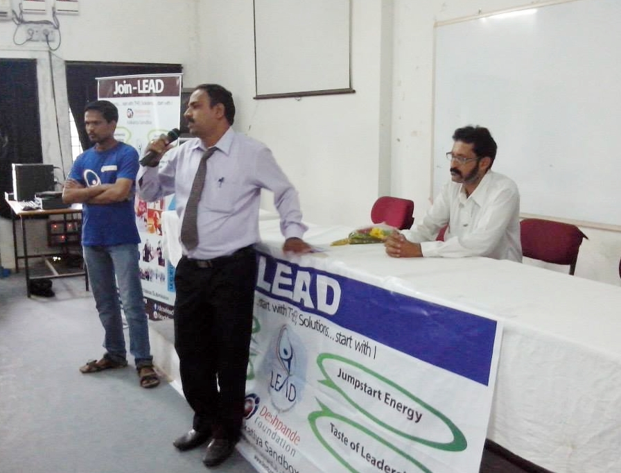 Lead programme held ar VREC,Nizamabad. Other information No